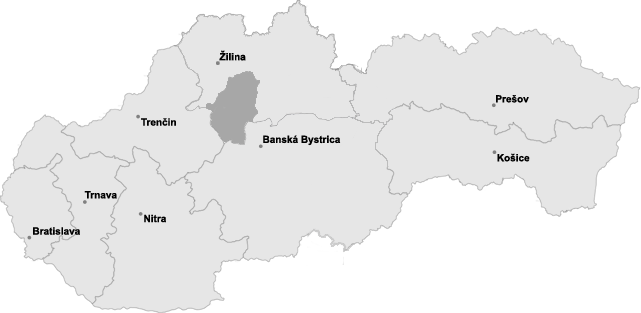 The location of the Turiec region within Slovakia.